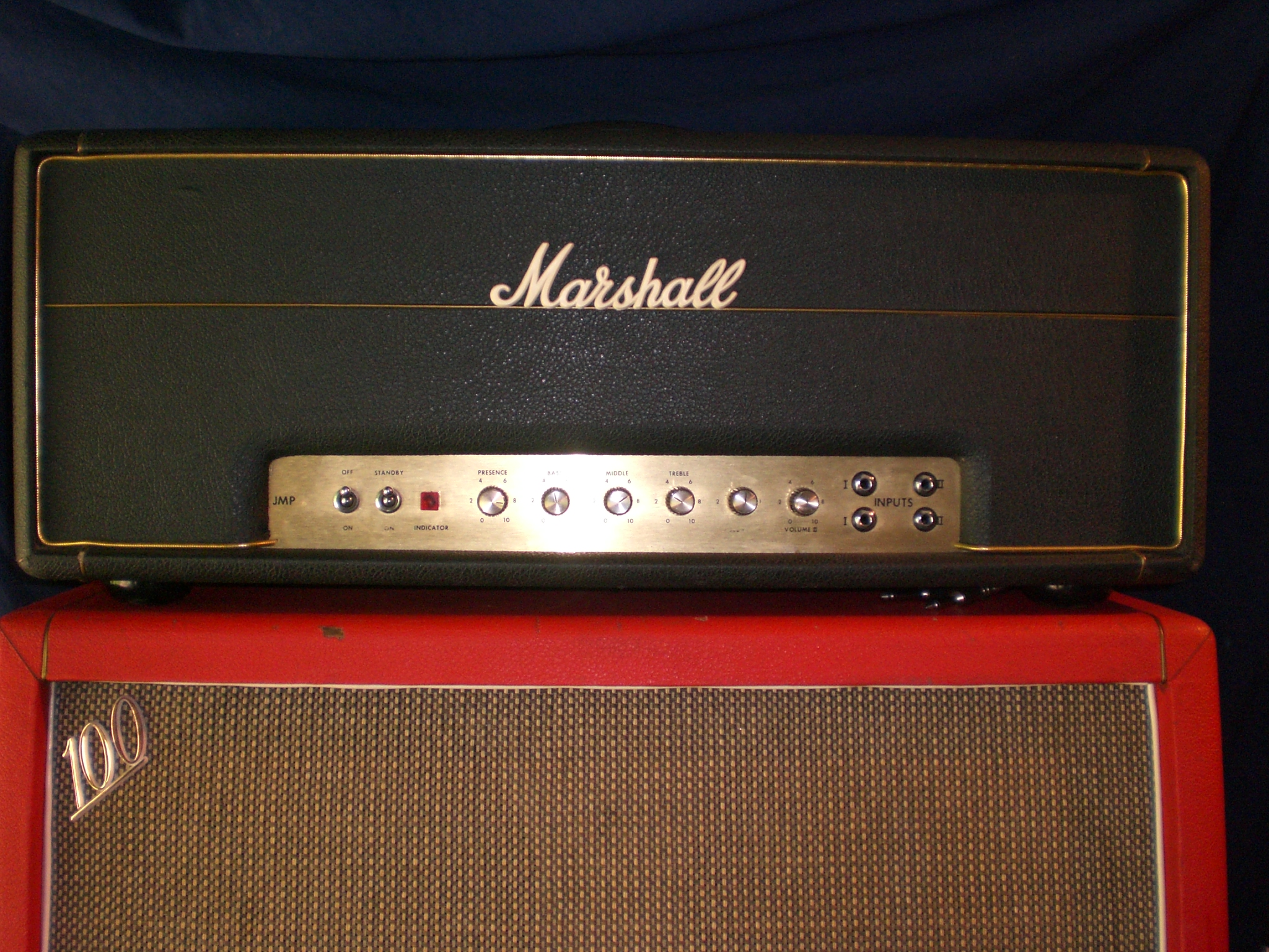 This picture shows a very rare Marshall Major built in 1971, in nearly perfect condition. It's located in Eberbach ( near Heidelberg - Germany ) - it's in private hands.